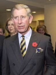 Prince Charles at the NIH for a briefing on osteoporosis with Surgeon General Richard Carmona